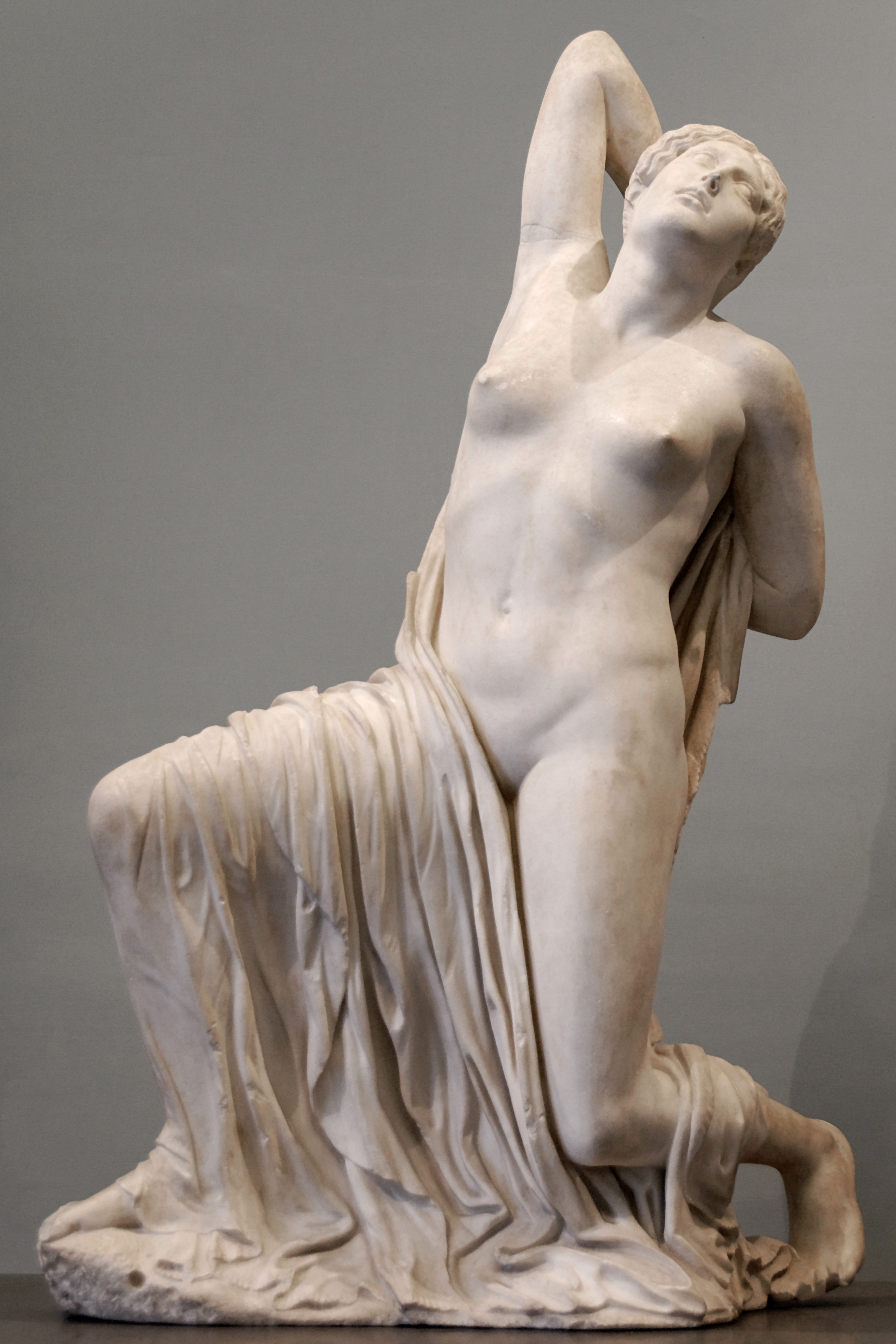 Wounded Niobid. Parian marble, Greek artwork, ca. 440 BC. From the Horti Sallustiani, in the area of Piazza Sallustio, Rome.